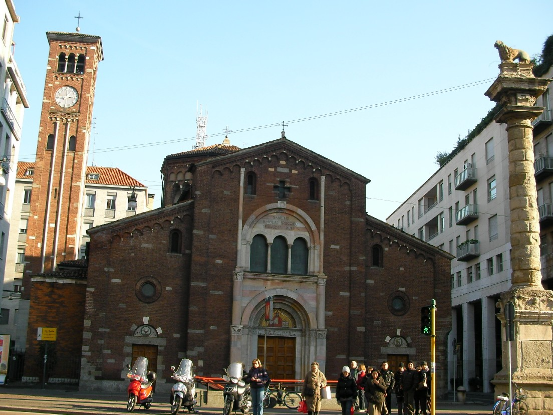 The Romanesque revival facade of San Babila church in Milan, Italy. It was built upon a project by Paolo Cesa Bianchi in 1906.